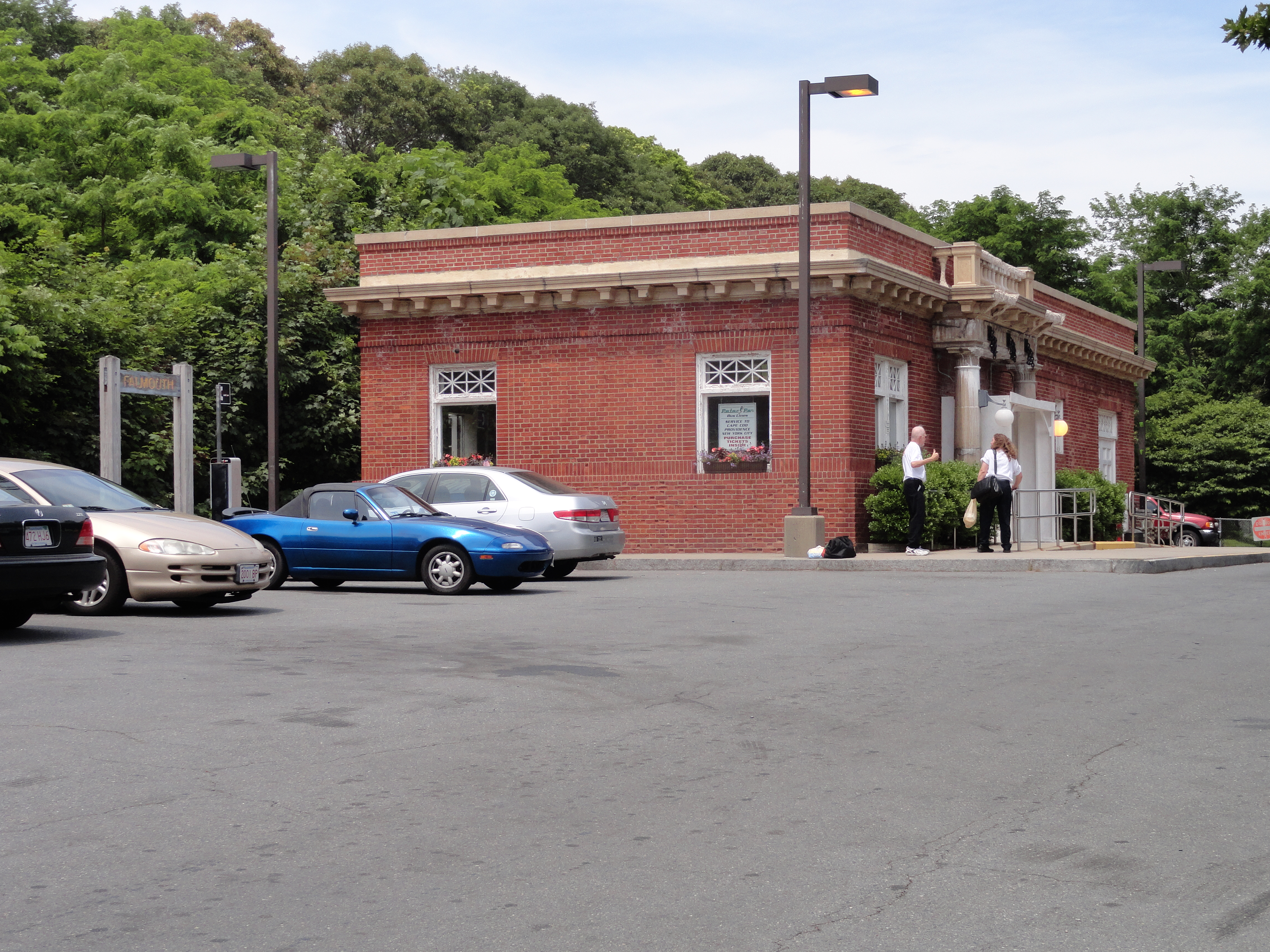 An image of the former Falmouth Train Station, which is now used as a bus station. The station is along the Shining Sea Bikeway.